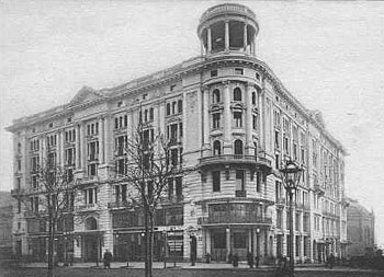 Bristol Hotel Warsaw about 1901